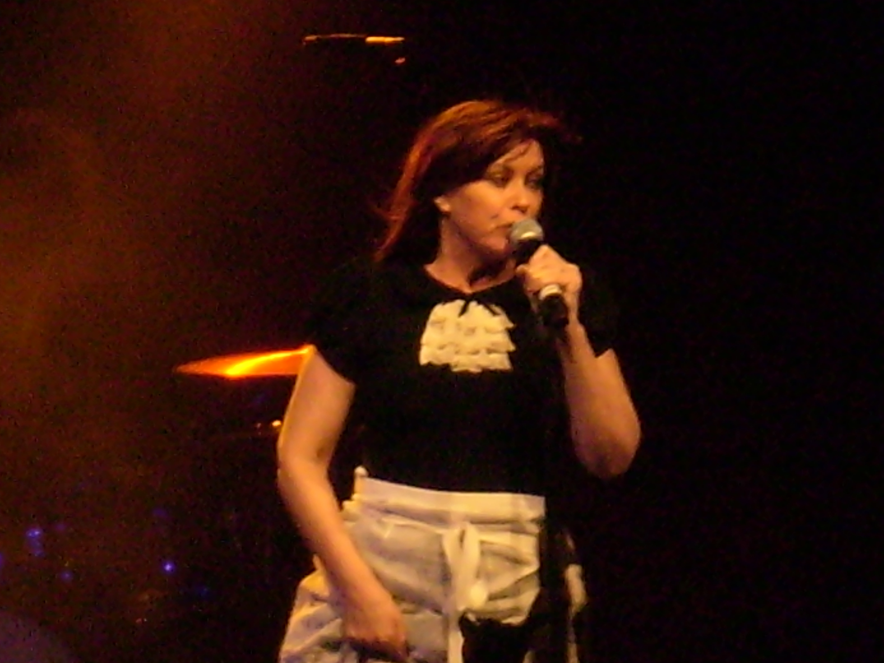 Chrissie Amphlett of the Divinyls.